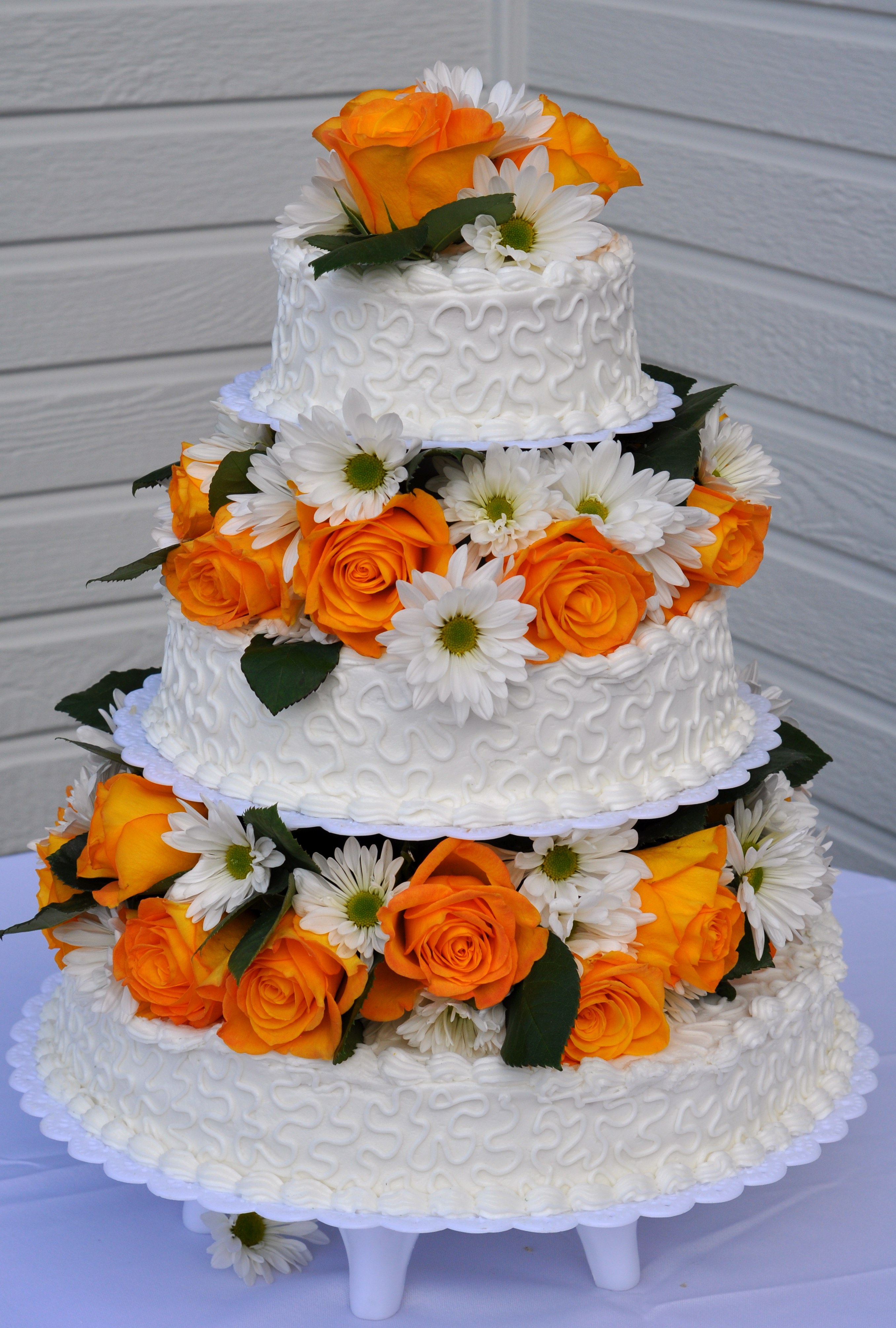 Summer wedding cakes with seasonal flowers in someone wedding actives